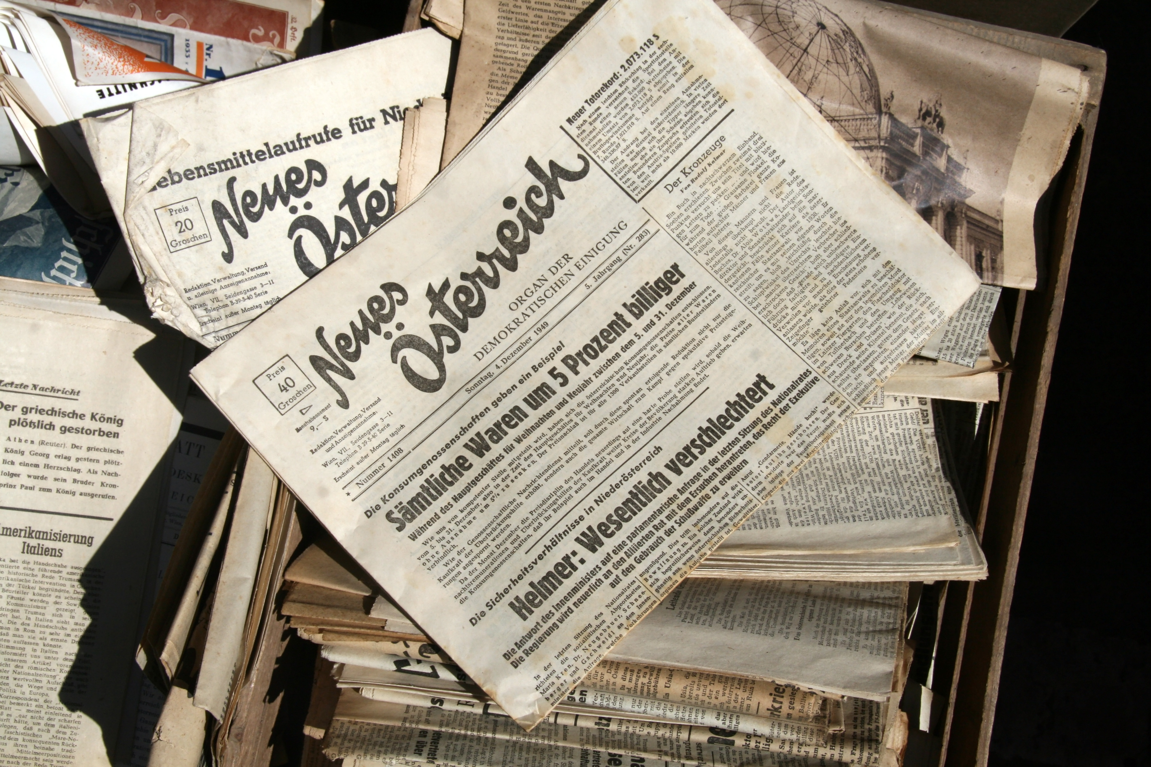 Old editions of the newspaper Neues Österreich (New Austria) at a flea market in Vienna 2011.